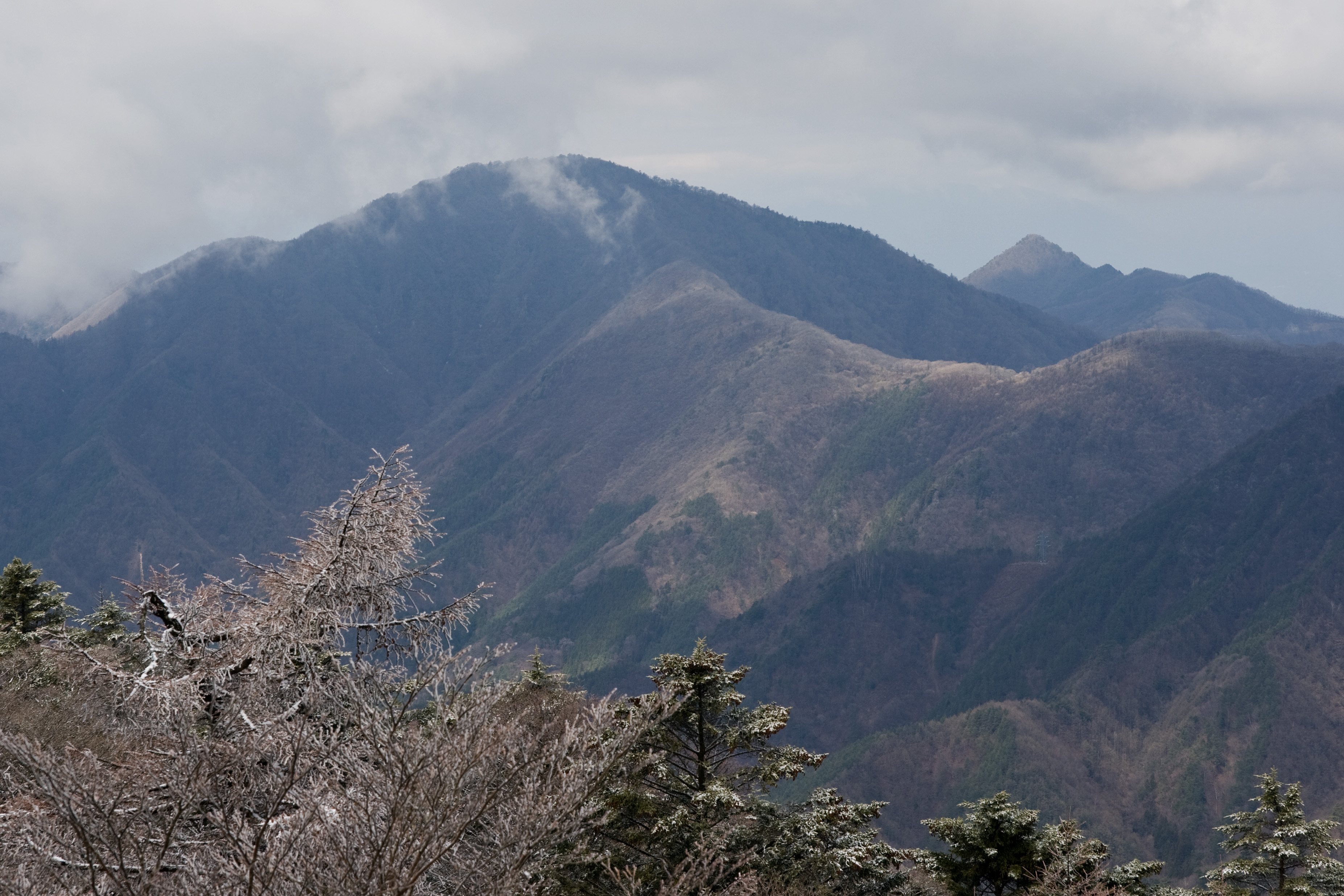 Mt. Kurodake as seen from Mt. Mitsutoge, Yamanashi, Japan.